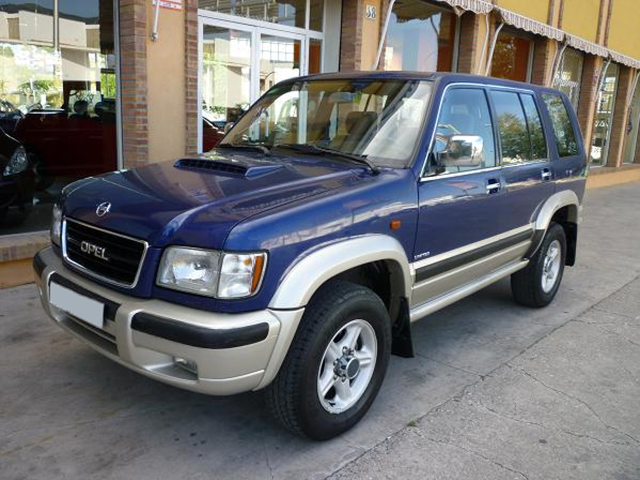 Developed by Isuzu